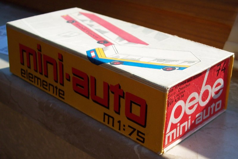 A packaging of the VEB Plastica Bad Kösen for PEBE mini cars (Mini-Autos) series 74 omnibus for a price of 4,50 Mark